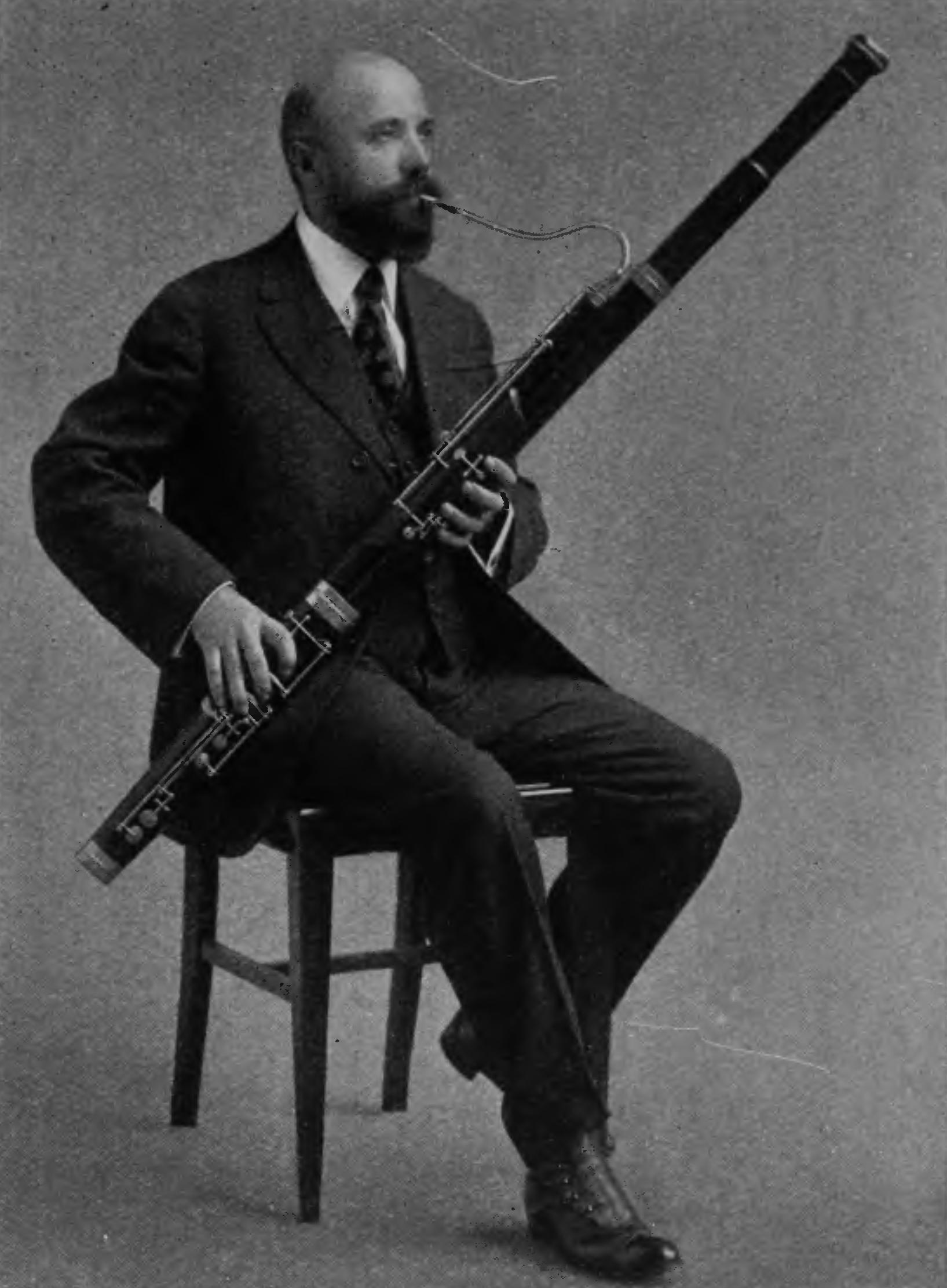 Auguste MesnardN. Y Philharmonic Orchestra